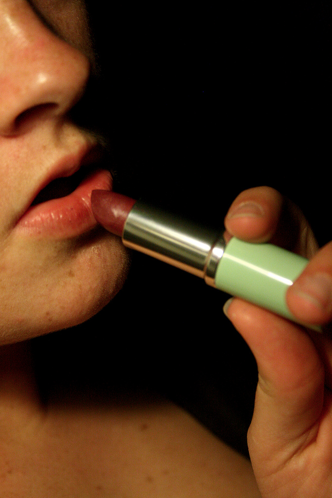 Lipstick in application